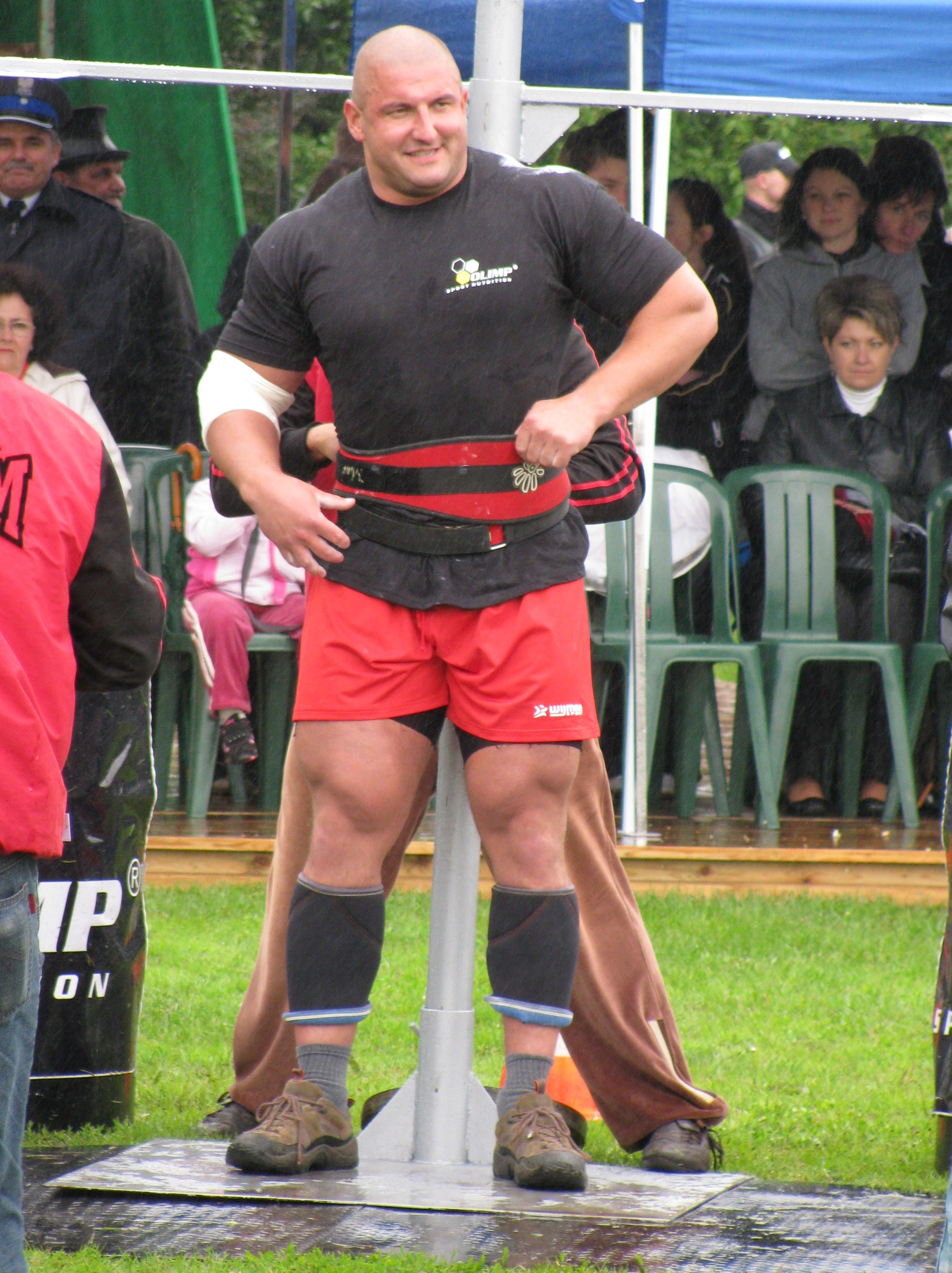 Slawomir Orzel - a strength athlete from Poland